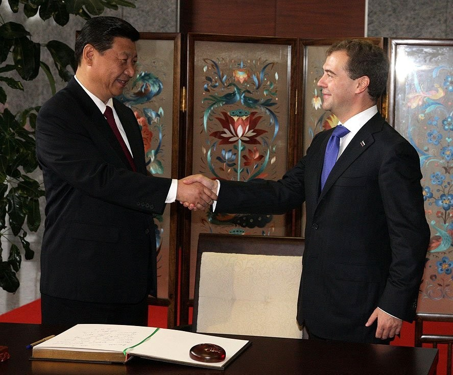 With Vice President of the People’s Republic of China Xi Jinping.